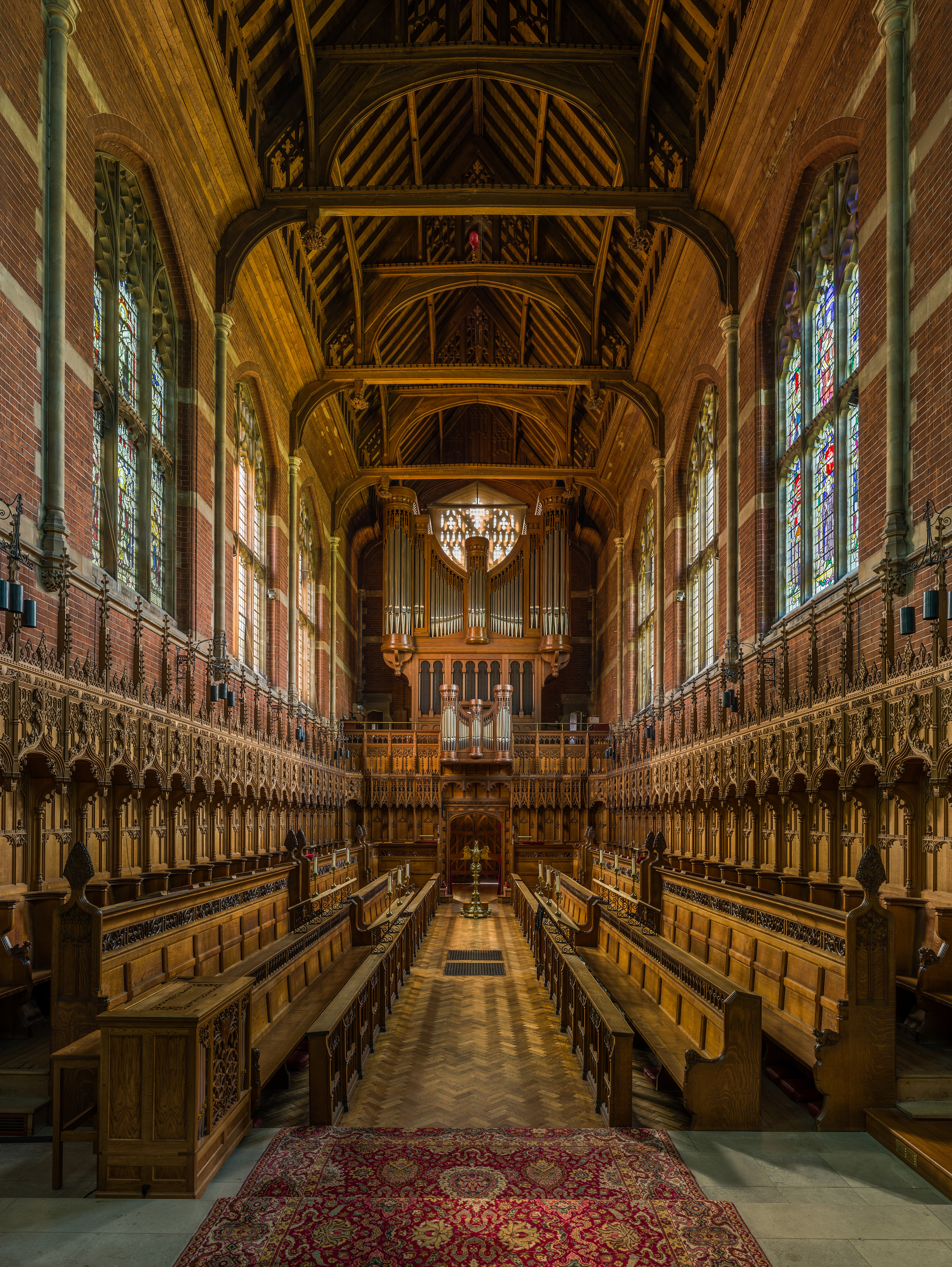 The chapel of Selwyn College facing west towards the entrance and organ in Cambridge, England.